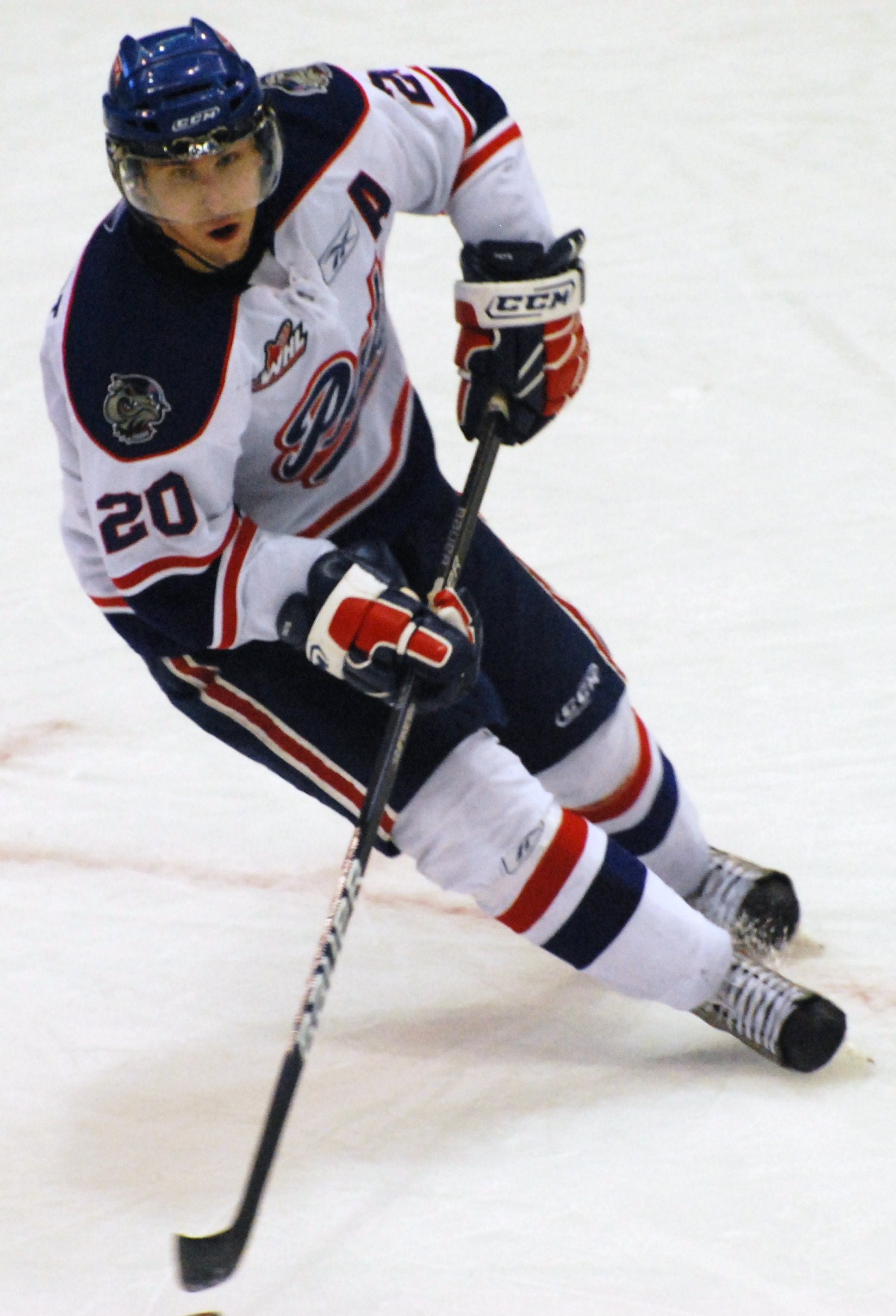 Colten Teubert skates during a game against the Moose Jaw Warriors in the WHL.